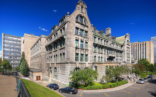 Macdonald Engineering Building outside facade